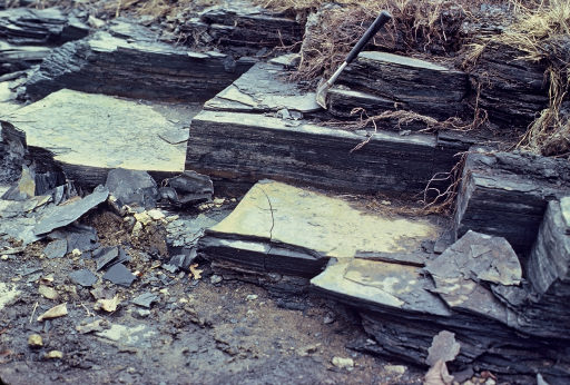 black shale, Kansas City MO Jointed exposure of Hushpuckney black shale, one of several metal- and organic-rich black shales of the Kansas City area. At this location the Hushpuckney contains more than 2000 parts per million zinc by weight.